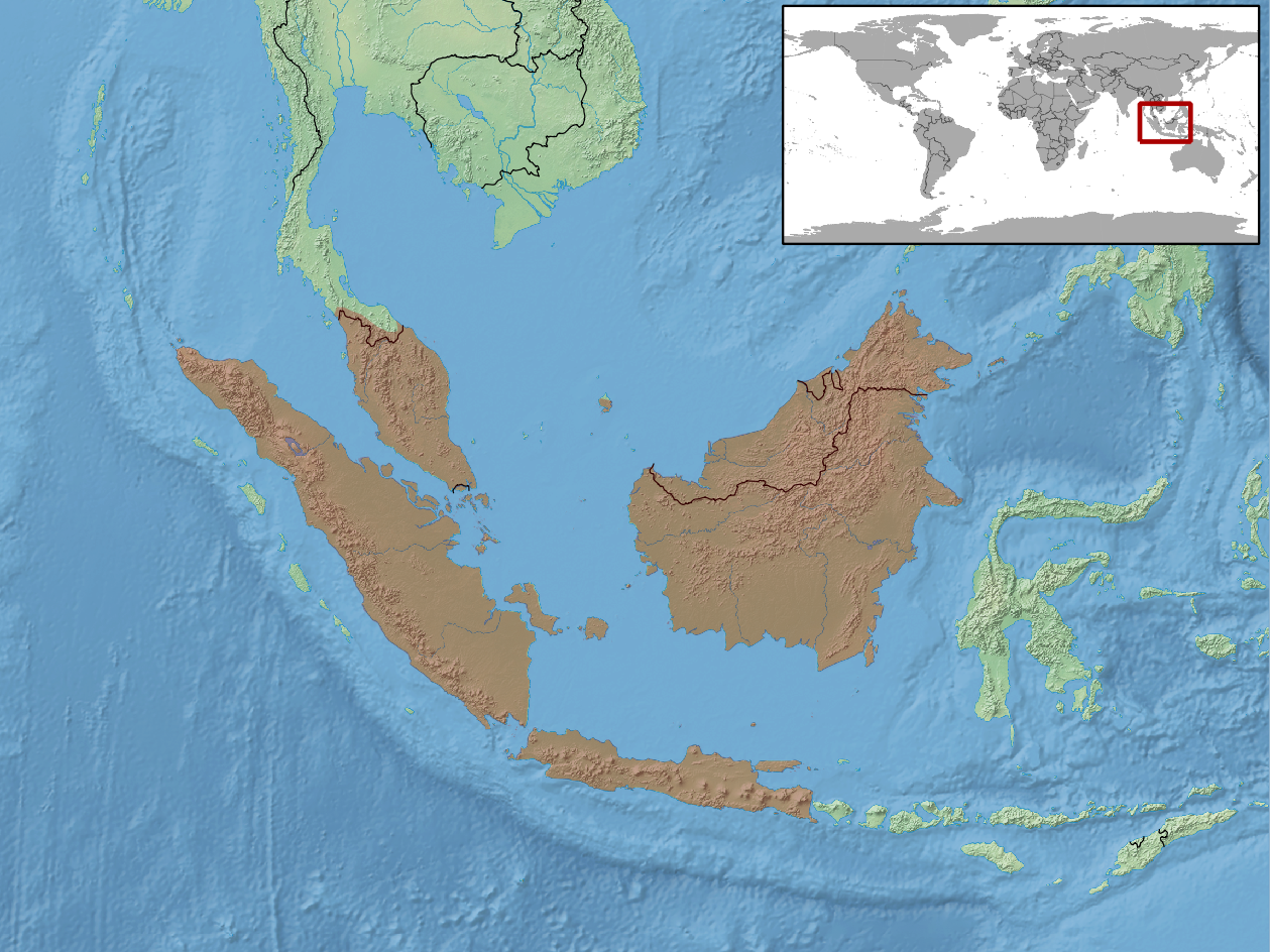 geographic distribution of Gongylosoma baliodeirus (Native: Brunei Darussalam; Indonesia (Jawa, Kalimantan, Sumatera); Malaysia (Peninsular Malaysia, Sabah, Sarawak); Singapore; Thailand)